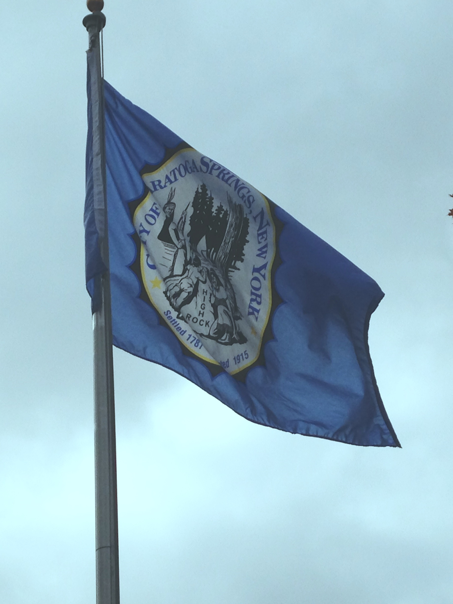 The Saratoga Springs, NY city flag at Congress Park